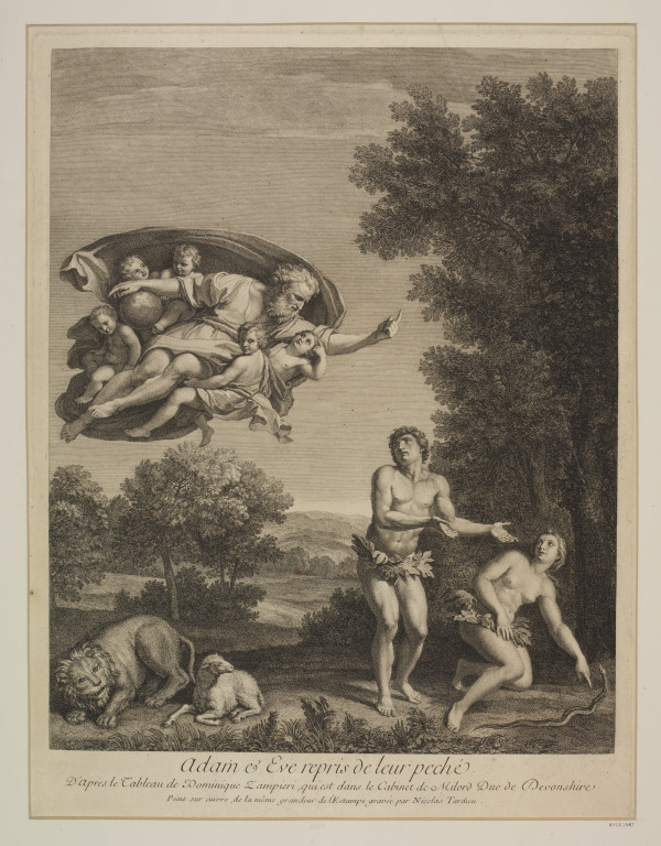 Adam and Eve; the Almighty seen above expelling them from Paradise; From the picture by Domenichino in the Devonshire Gallery; Print on paper. Engraving by Nicolas-Henri Tardieu, called "Tardieu the elder" (18 January 1674 - 27 January 1749)